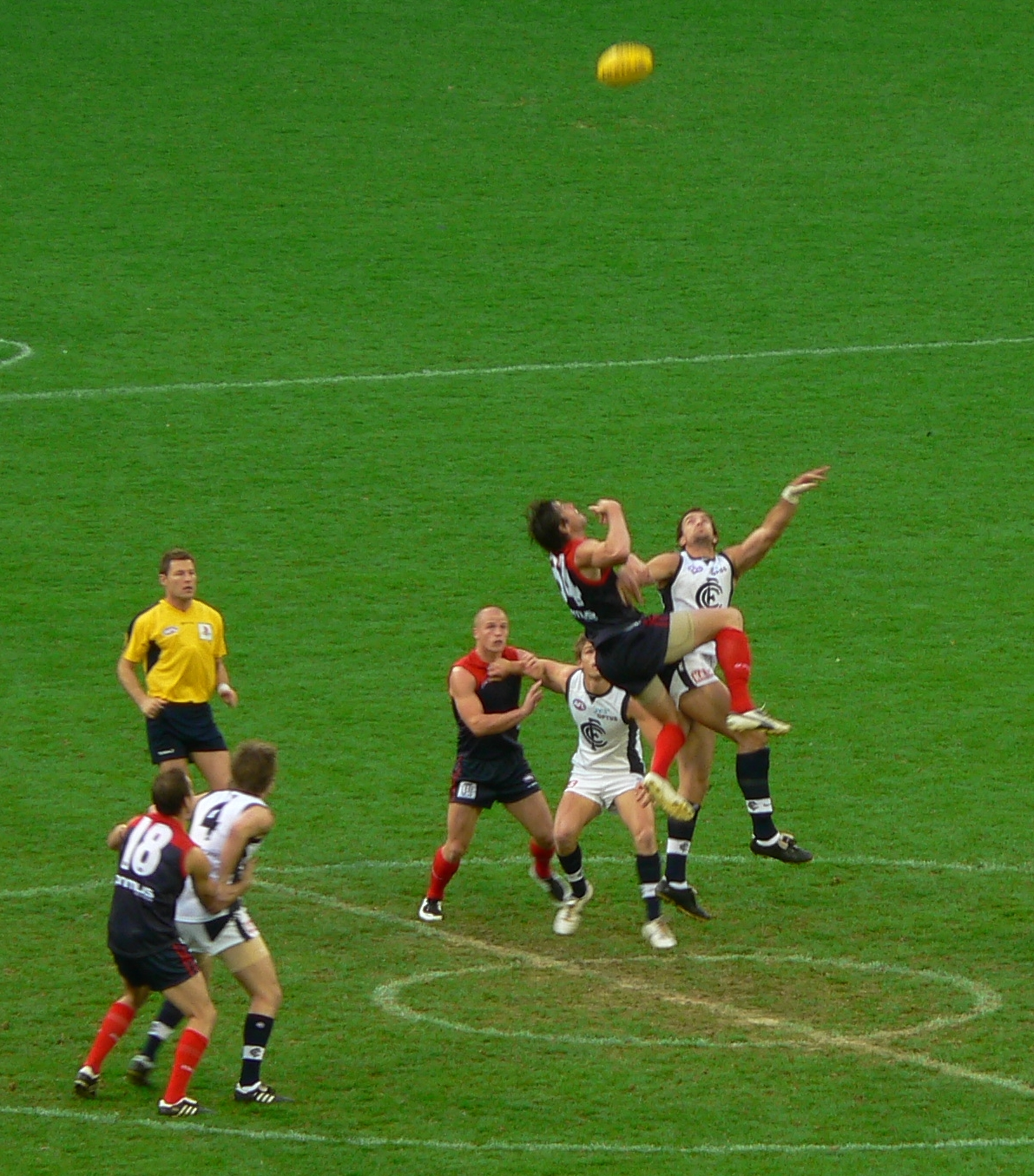 Rucking in the AFL. Melbourne Demons vs Carlton Blues